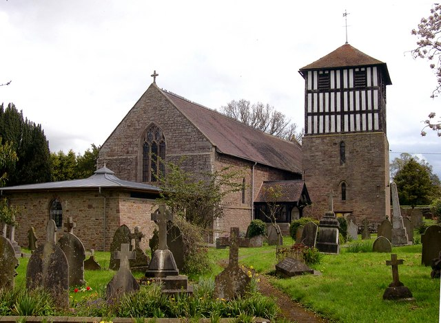 St Bartholomew's parish church, Holmer, Herefordshire, seen from the southwest